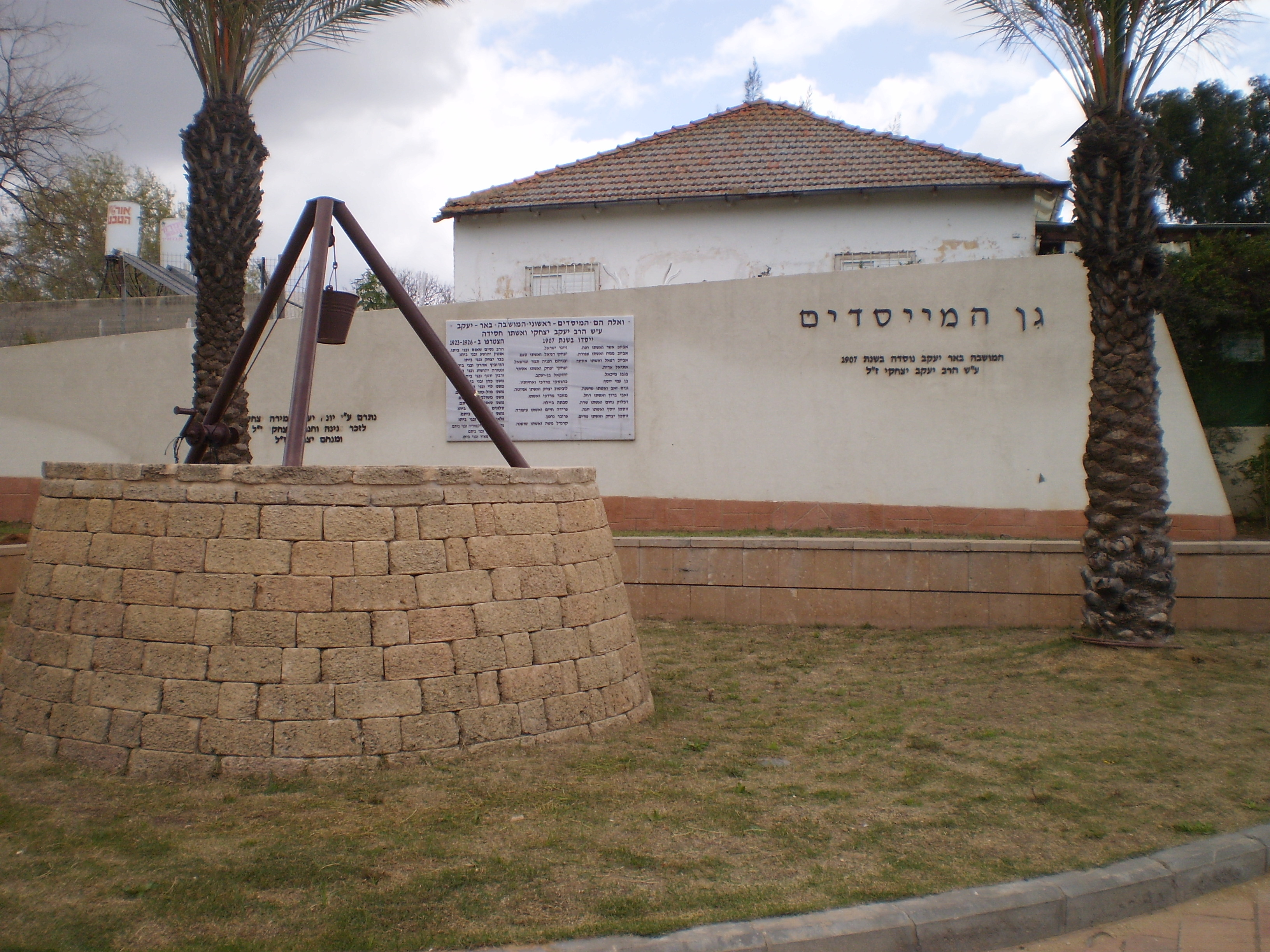 Gan Hamyasdim, Beer Yakov